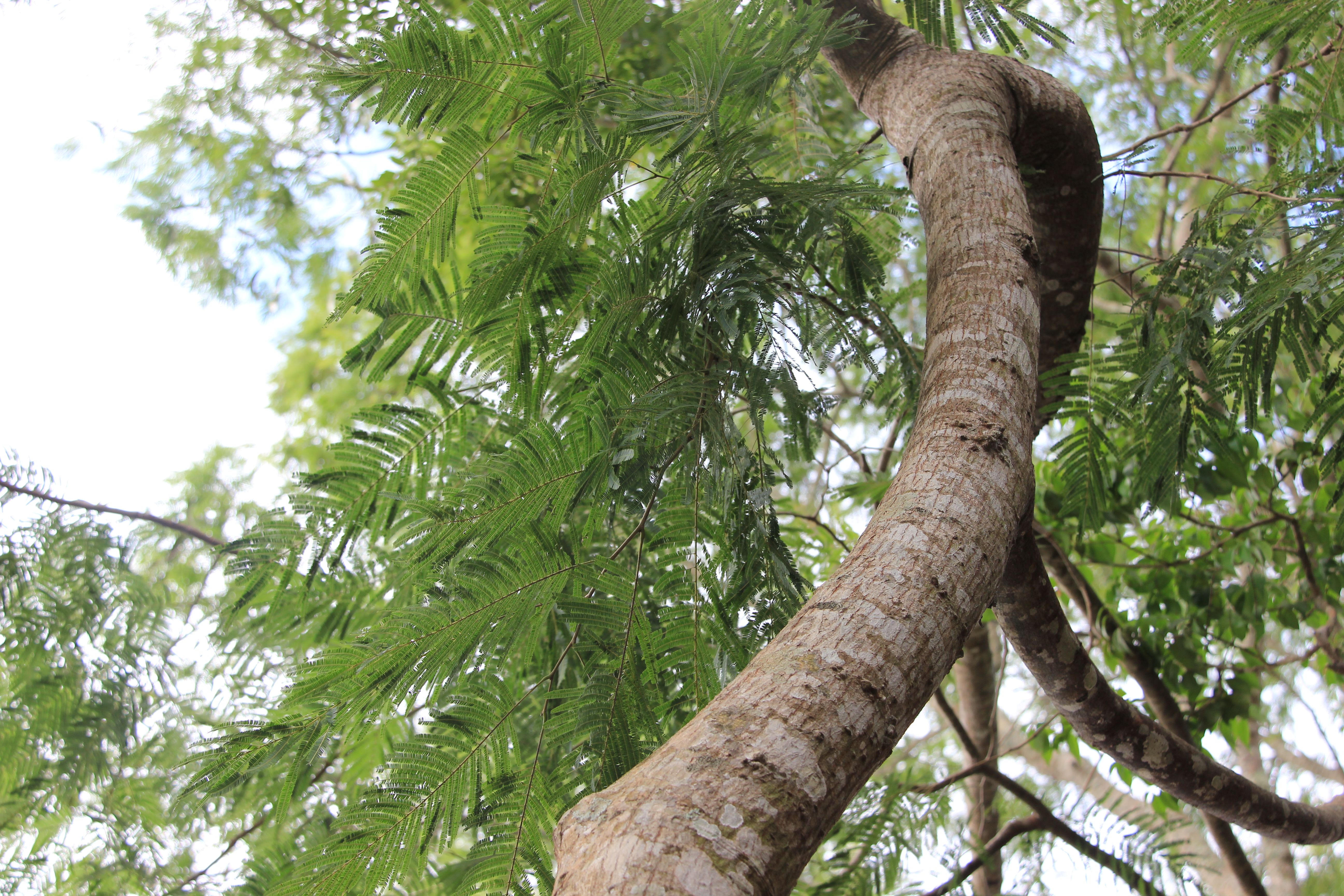 Anadenanthera colubrina (locally named "Curupay") at Iguazu Falls (Argentina)